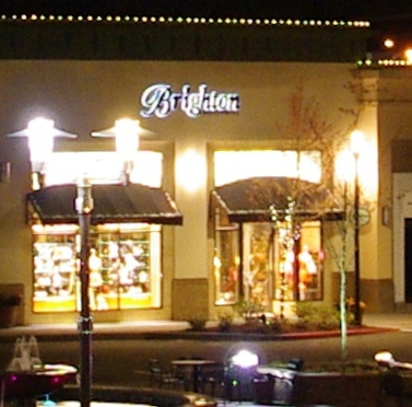 Brighton Collectables store in Hillsboro, Oregon.